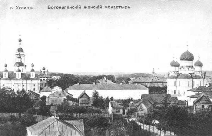 Bogoyavlensky Female Monastery in Uglicj